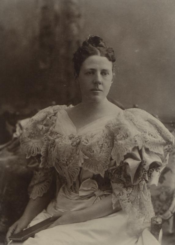 Title Mary Pauline (Foster) du Pont,1849-1902 Date Created (start) 1870 Date Created (end) 1890 Former owner Du Pont, Pierre S. (Pierre Samuel), 1870-1954 Subject(s) - Name Du Pont, Pauline Foster, 1849-1902 Find all items with name(s) Du Pont, Pierre S. (Pierre Samuel), 1870-1954 Du Pont, Pauline Foster, 1849-1902 Genre portrait photographs Language English Type of resource still image Extent 1 photographic print : b&w